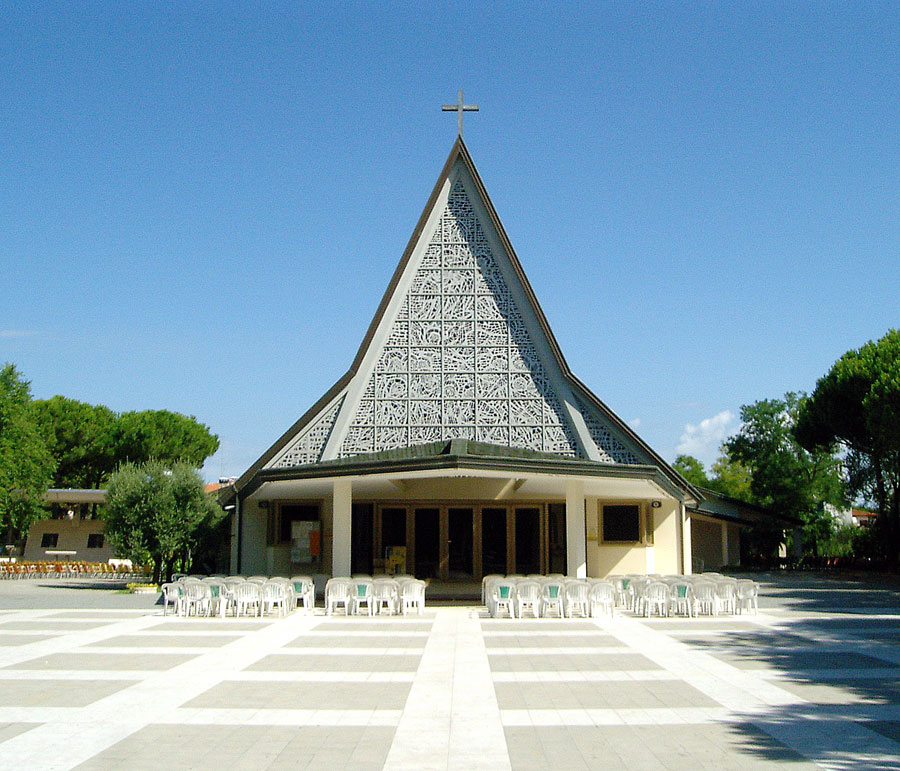 Saint Marys Church in Bibione